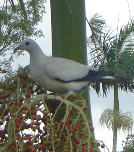 Pied Imperial Pigeon (Ducula bicolor), feeding on fruit. Photo taken by Frances76.